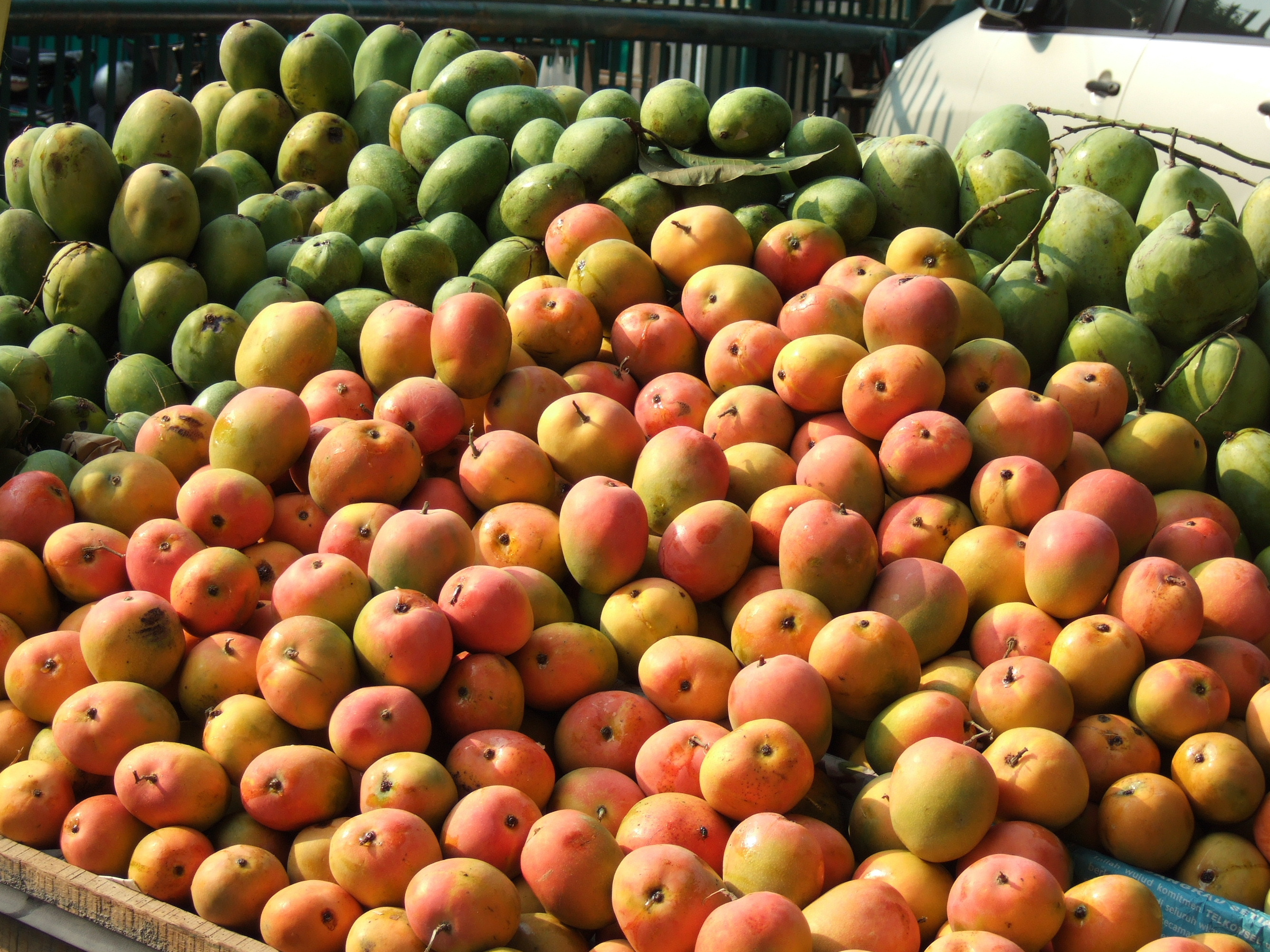 Mangoes stall in Jakarta